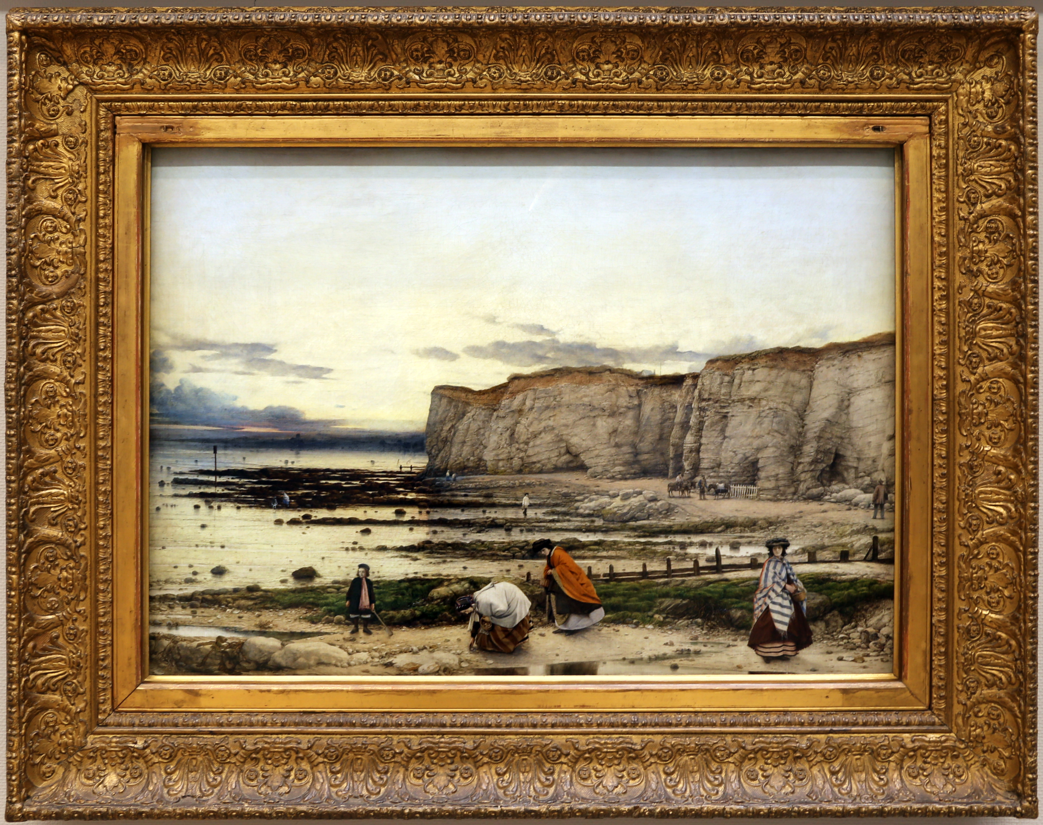 Paintings in Tate Britain